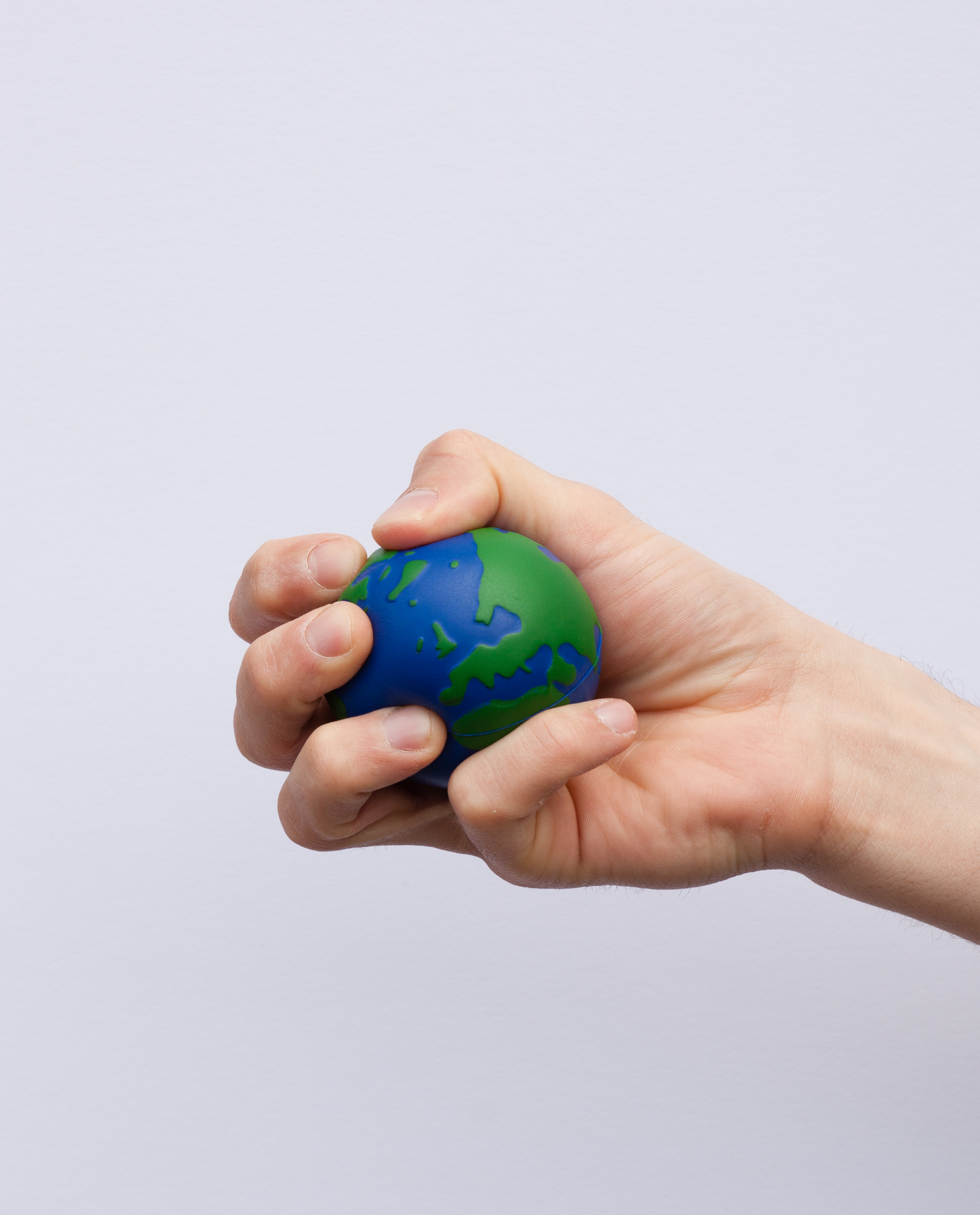 Earth globe stress ball